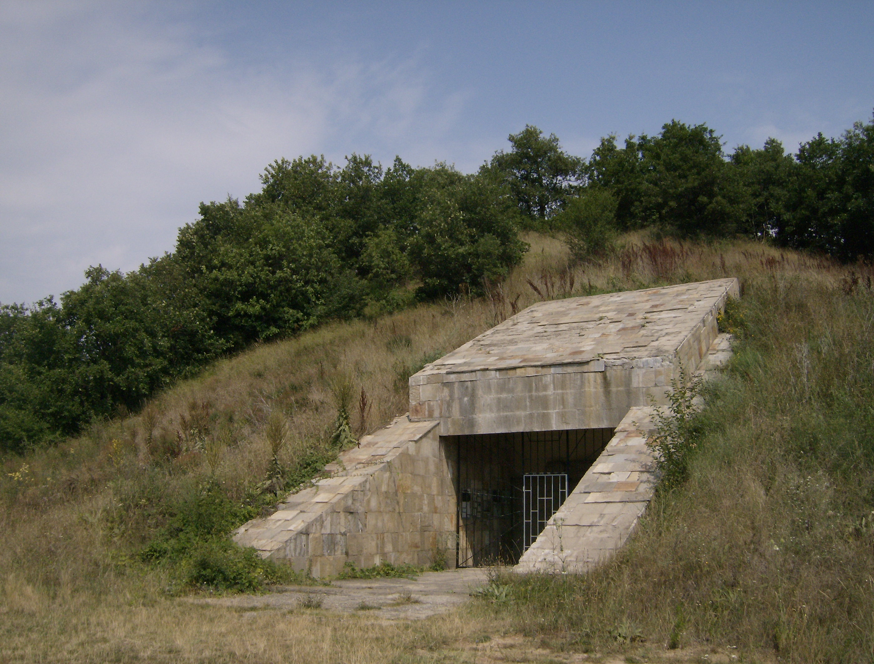 Thracian tumulus near the town of Strelcha, Bulgaria